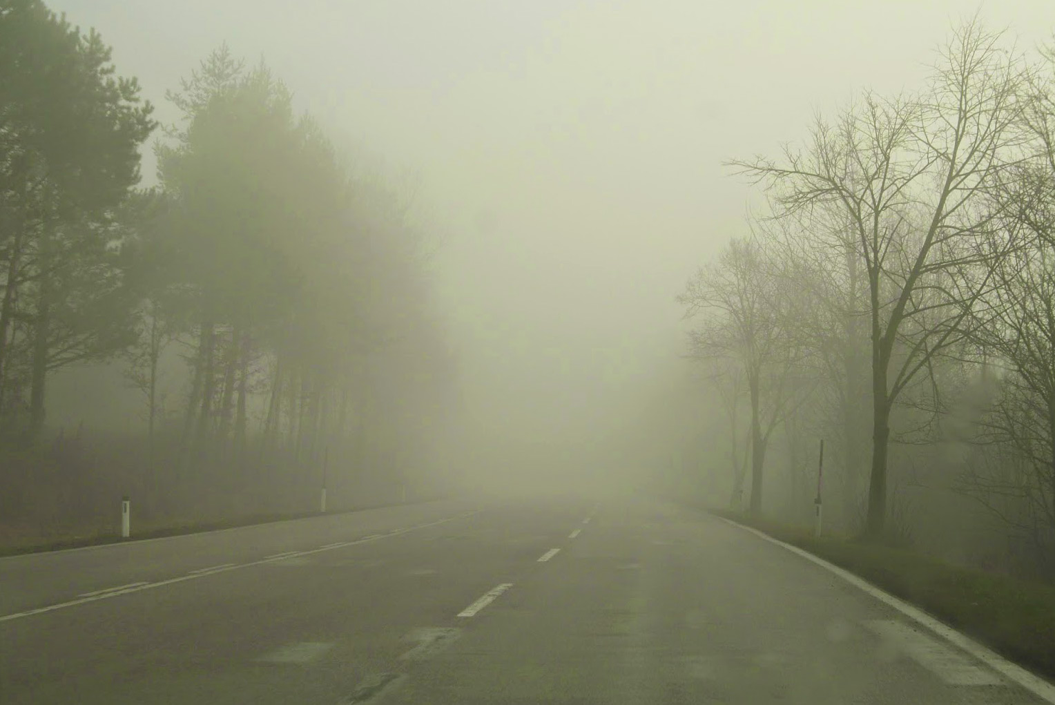 Fog near Baden, Austria